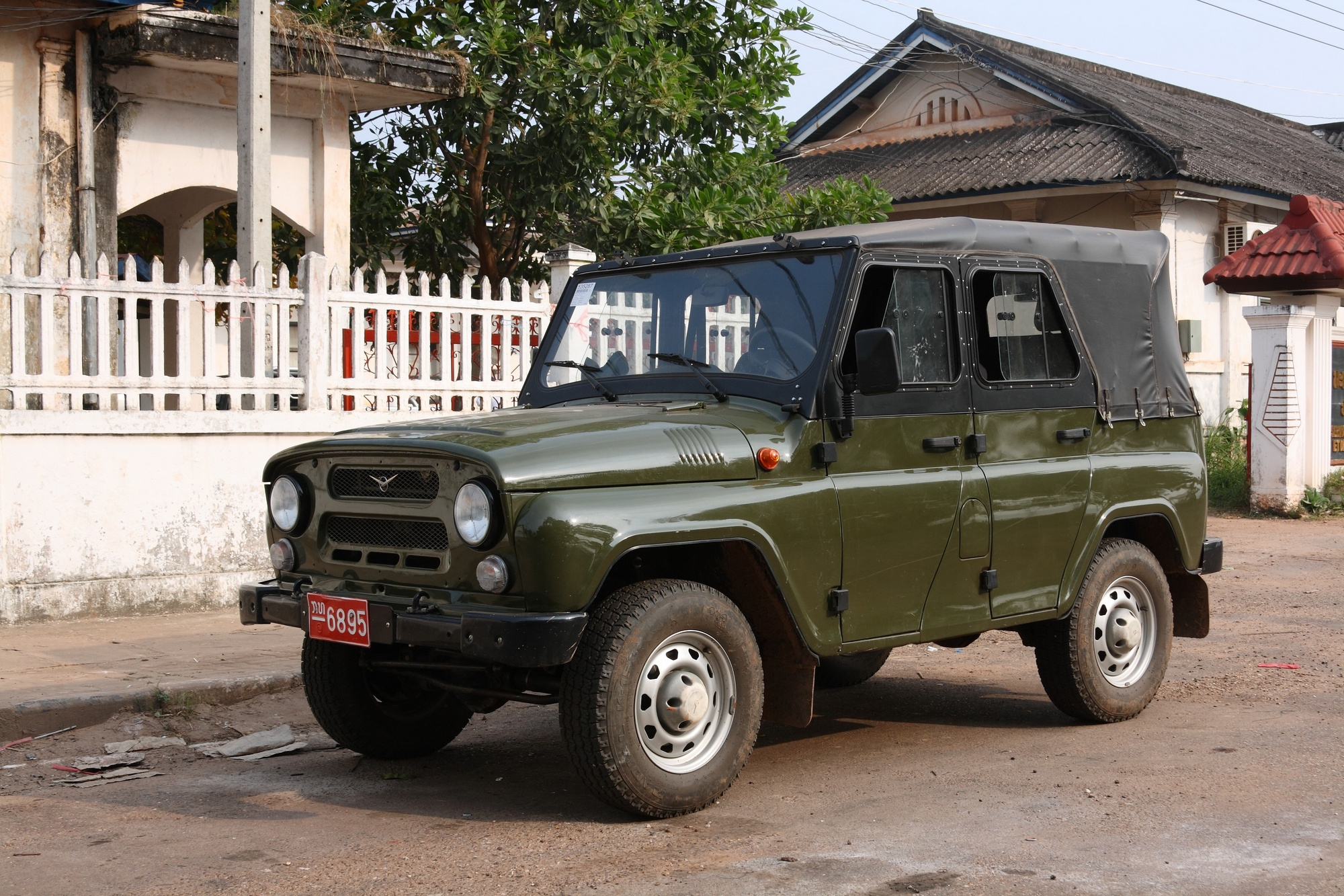 UAZ 469 in Savannakhet, Laos